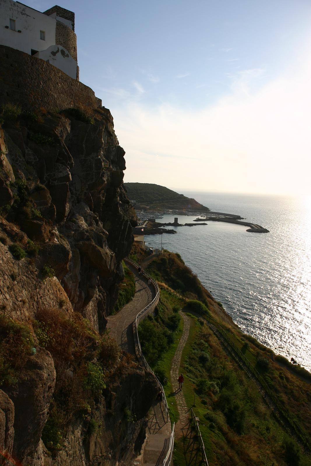 Castelsardo (province of Sassari) Sardinia the harbor